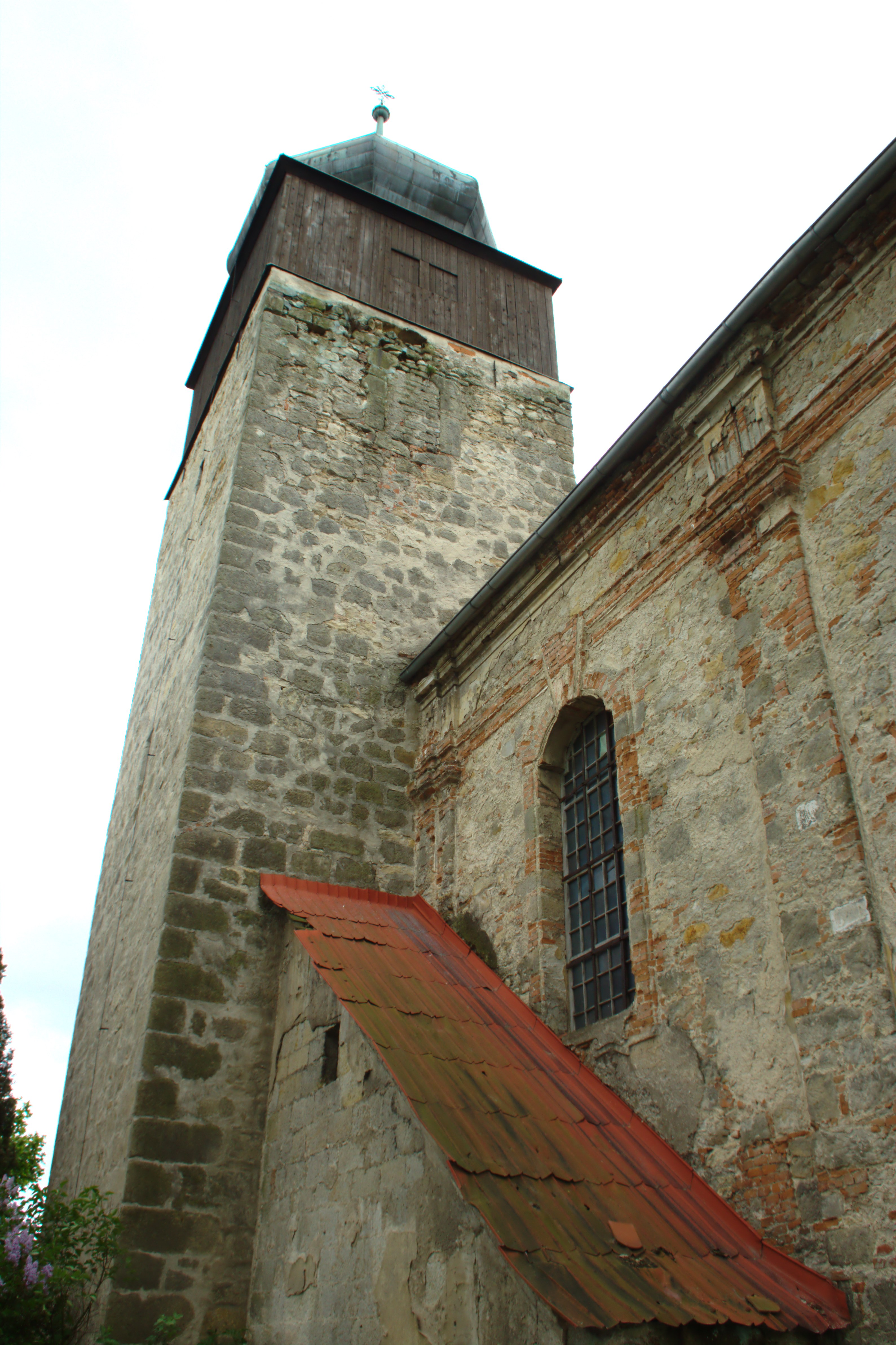 Main church in the town of Skalsko, Central Bohemian Region, CZ